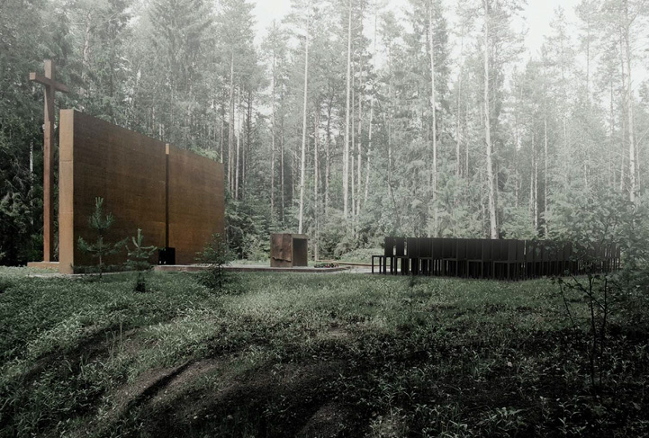 Polish War cemetery in Katyń